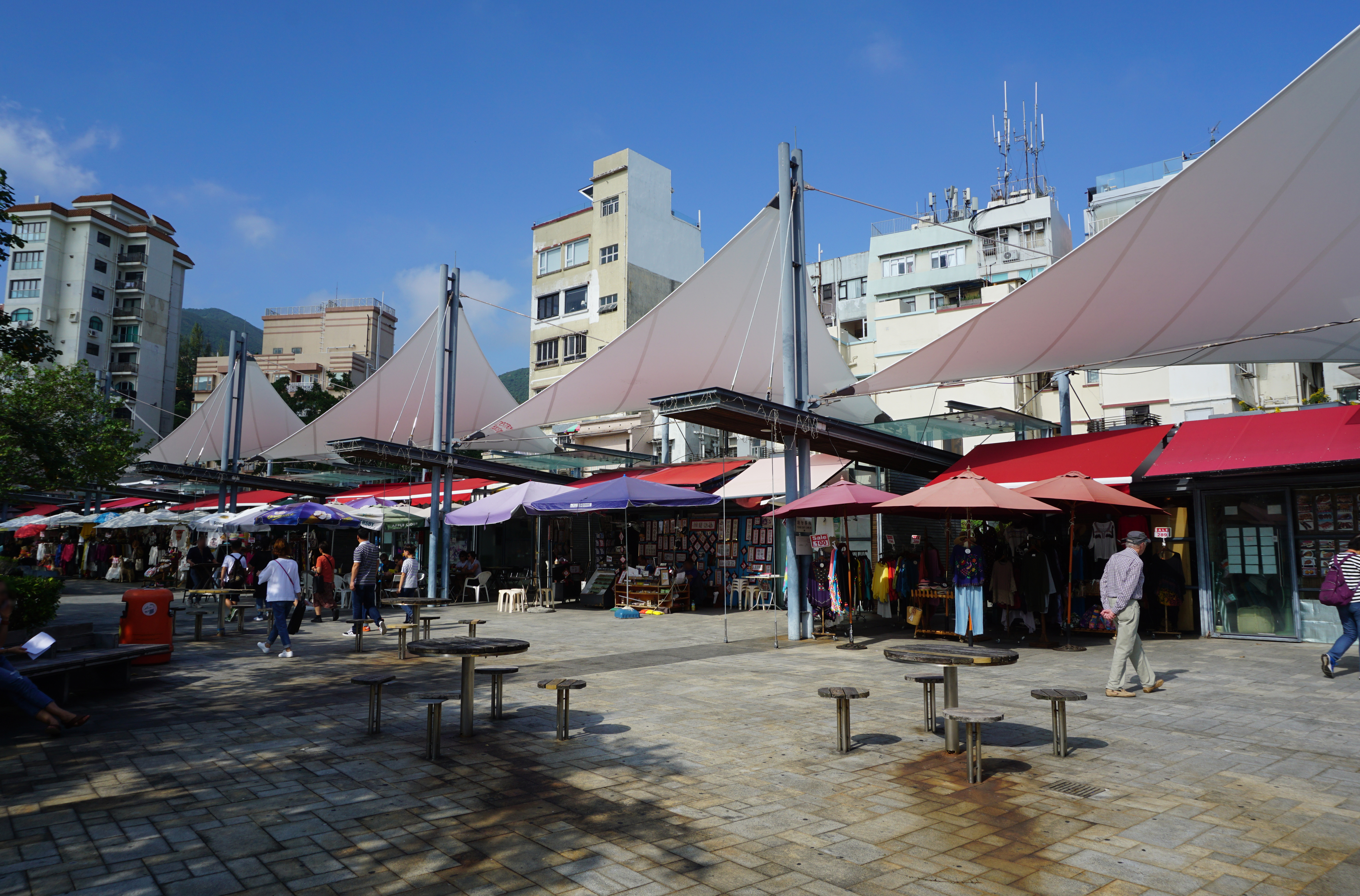 Waterfront Mart in Stanley, Hong Kong.